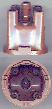 distributor cap for a 4 cylinder engine Scan, upload by MH 18:38, 2004 Aug 22 (UTC)